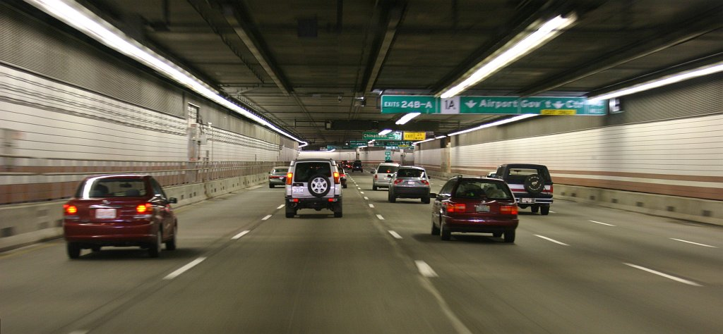 Interstate I-93 Tunnel in Boston, part of the Big Dig